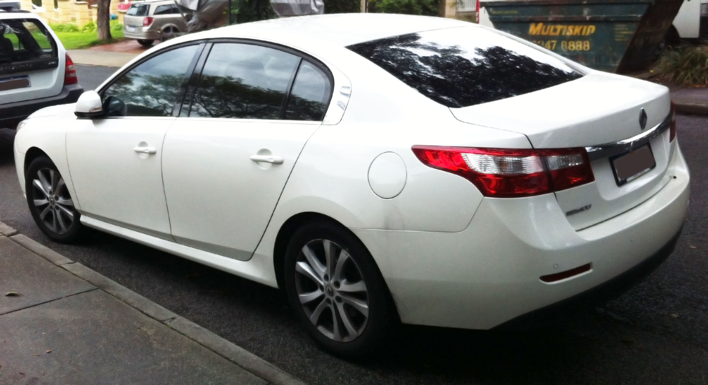 2011–2013 Renault Latitude (X43) dCi sedan. Photographed in Swanbourne, Western Australia, Australia.